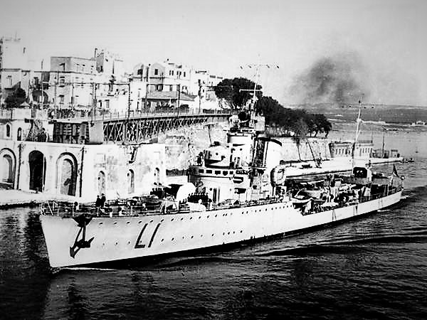 The Regia Marina destroyer Libeccio (LI) of Maestrale class destroyer in Taranto.